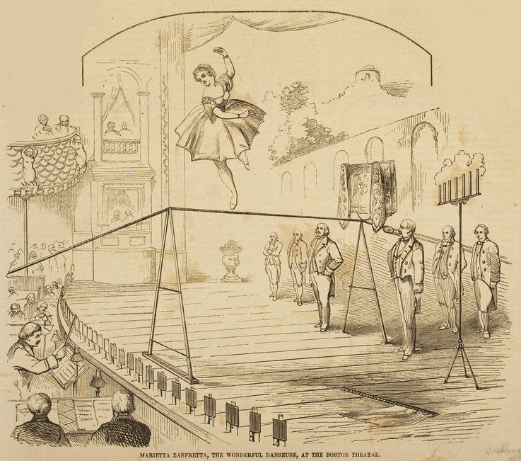 Italian high-wire dancer Marietta Zanfretta performing at The Boston Theatre in Boston in 1858